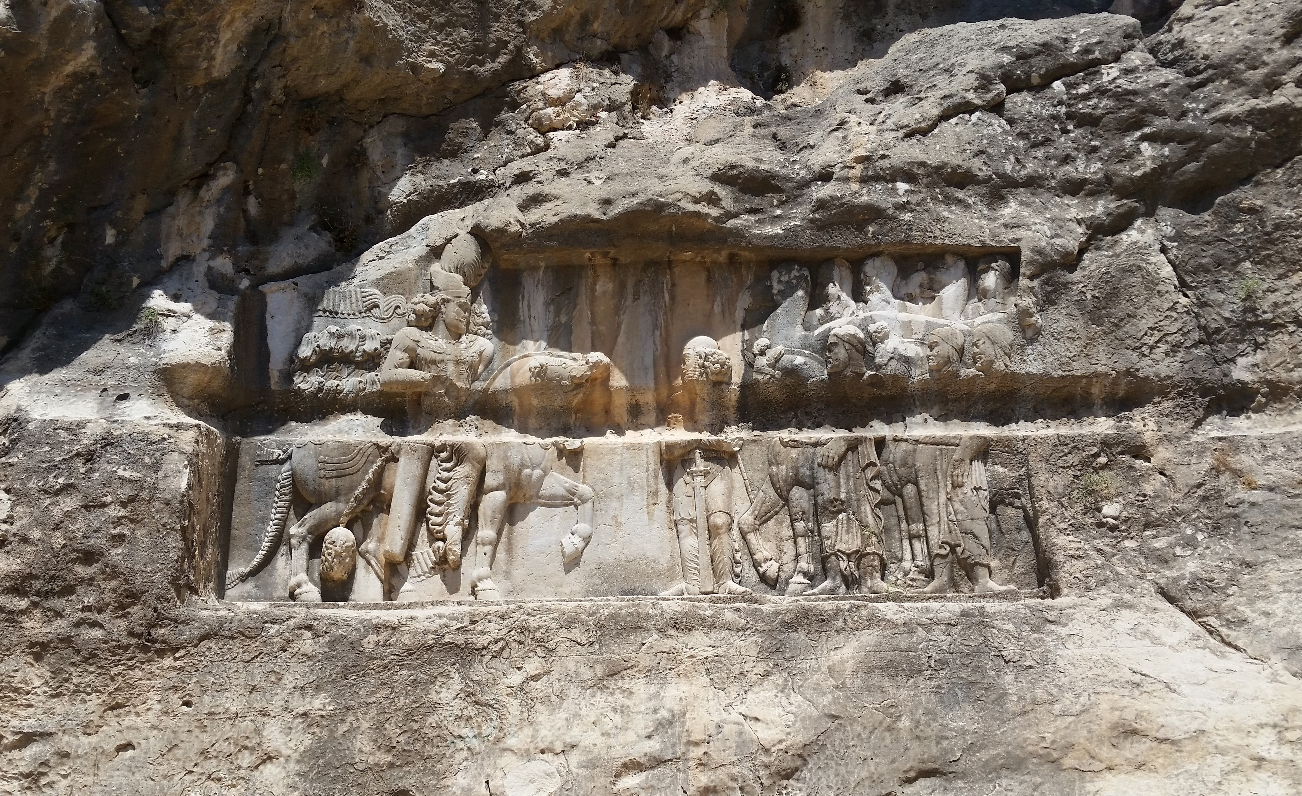 The Bishapur relief of Bahram II on horseback, being met by a group of envoys, presumably Arabs.